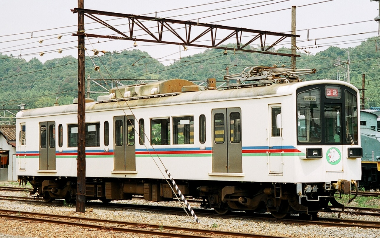 Ohmi Railway 223 EMU (Japan). Taking a picture from Hikone Station.